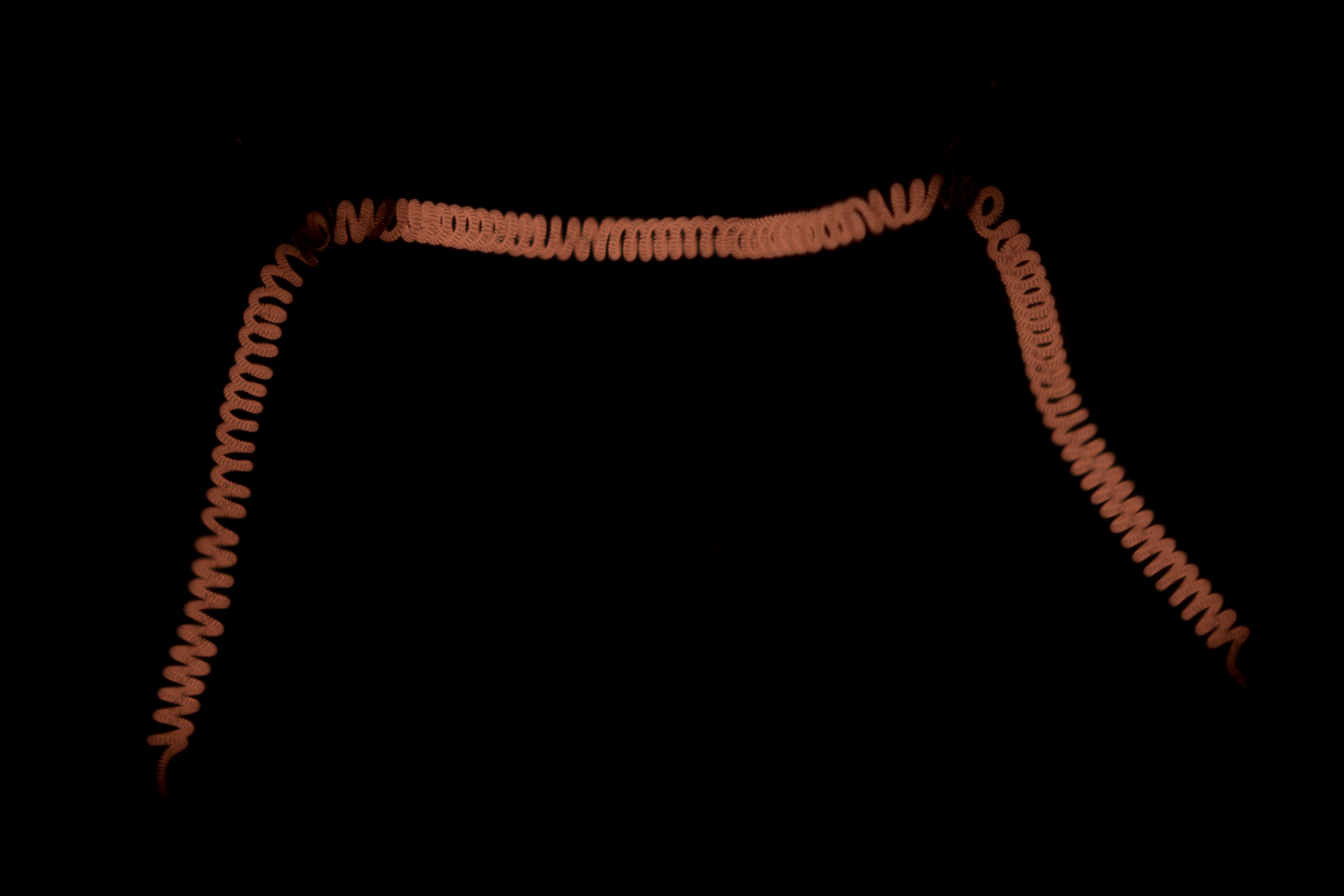 Lighting filament of an incandescent light bulb